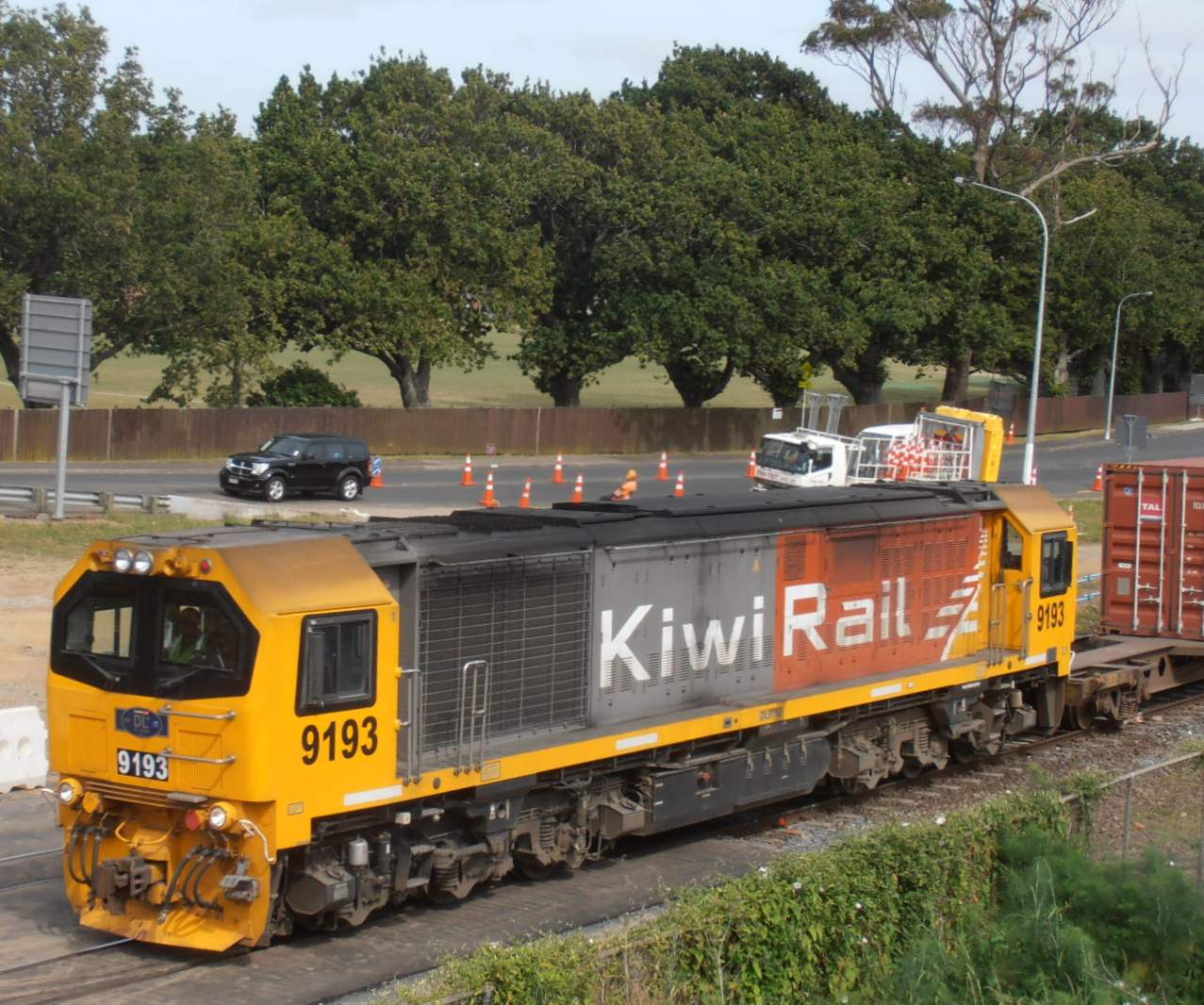 DL 9193 near Middlemore, Auckland